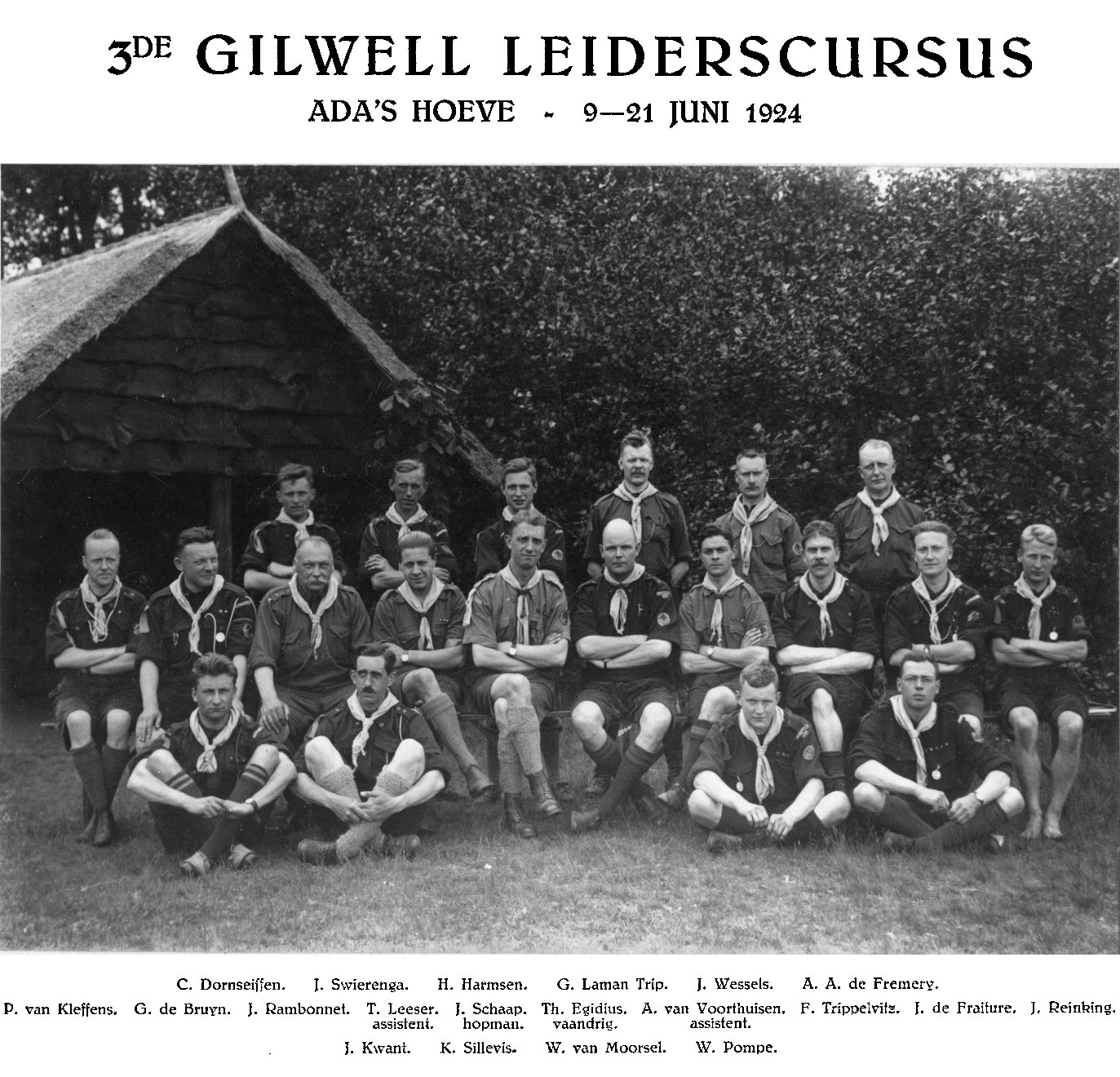 Third Gilwell Wood Badge in the Netherlands